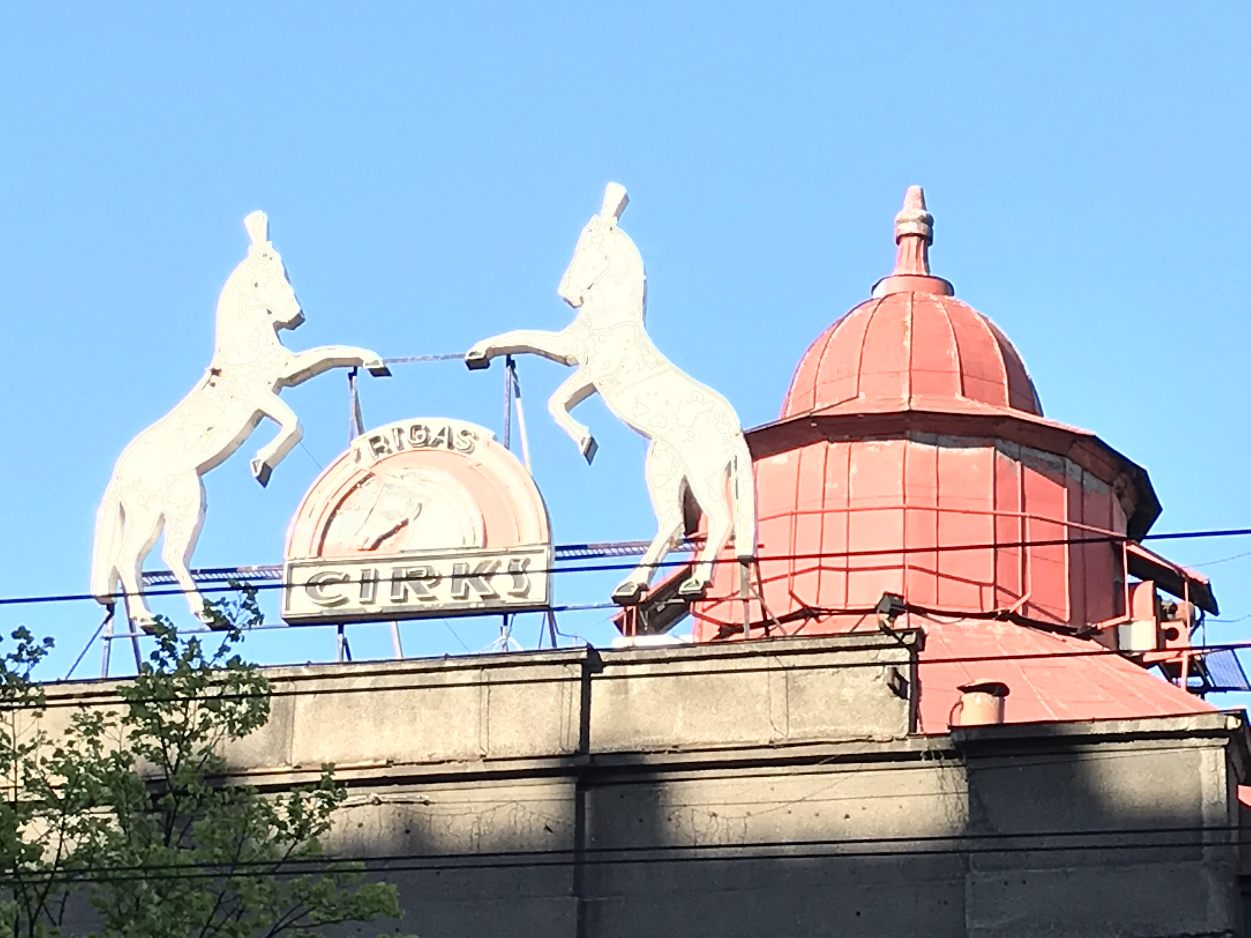 Rigas cirks building in Riga, Latvia - a detail. May 9, 2018.